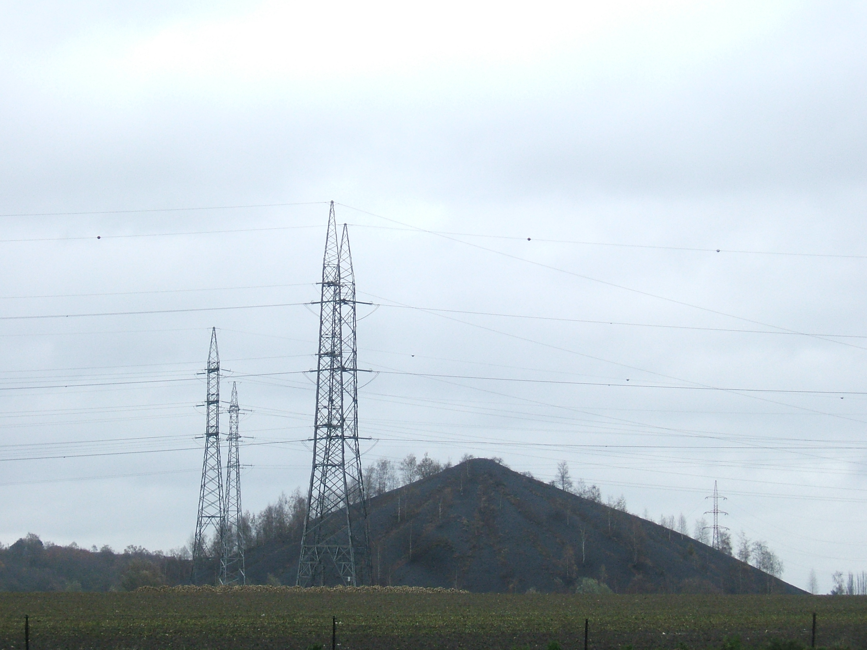 Bonne Esperance Terril with power lines, Belgium.